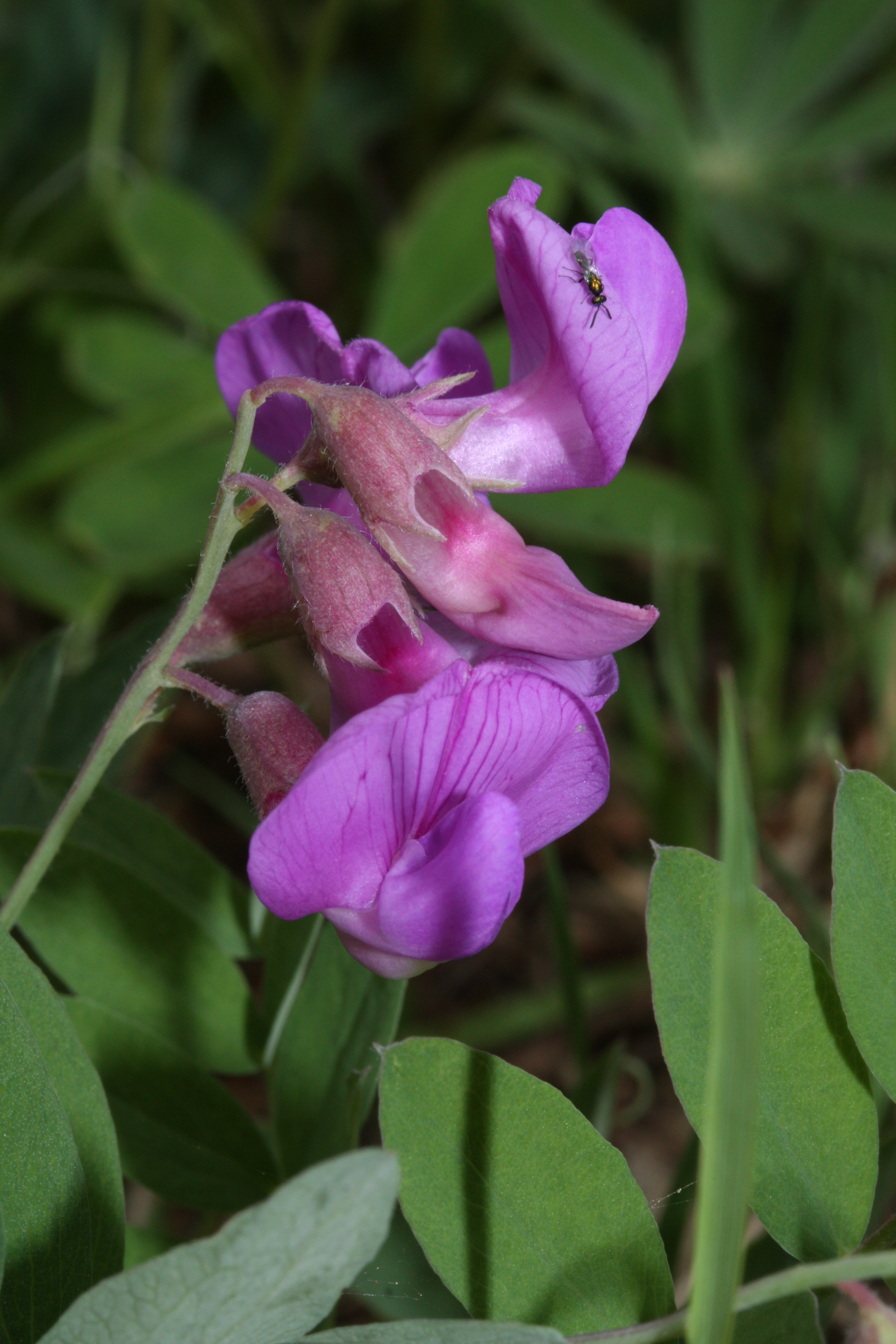 American Vetch